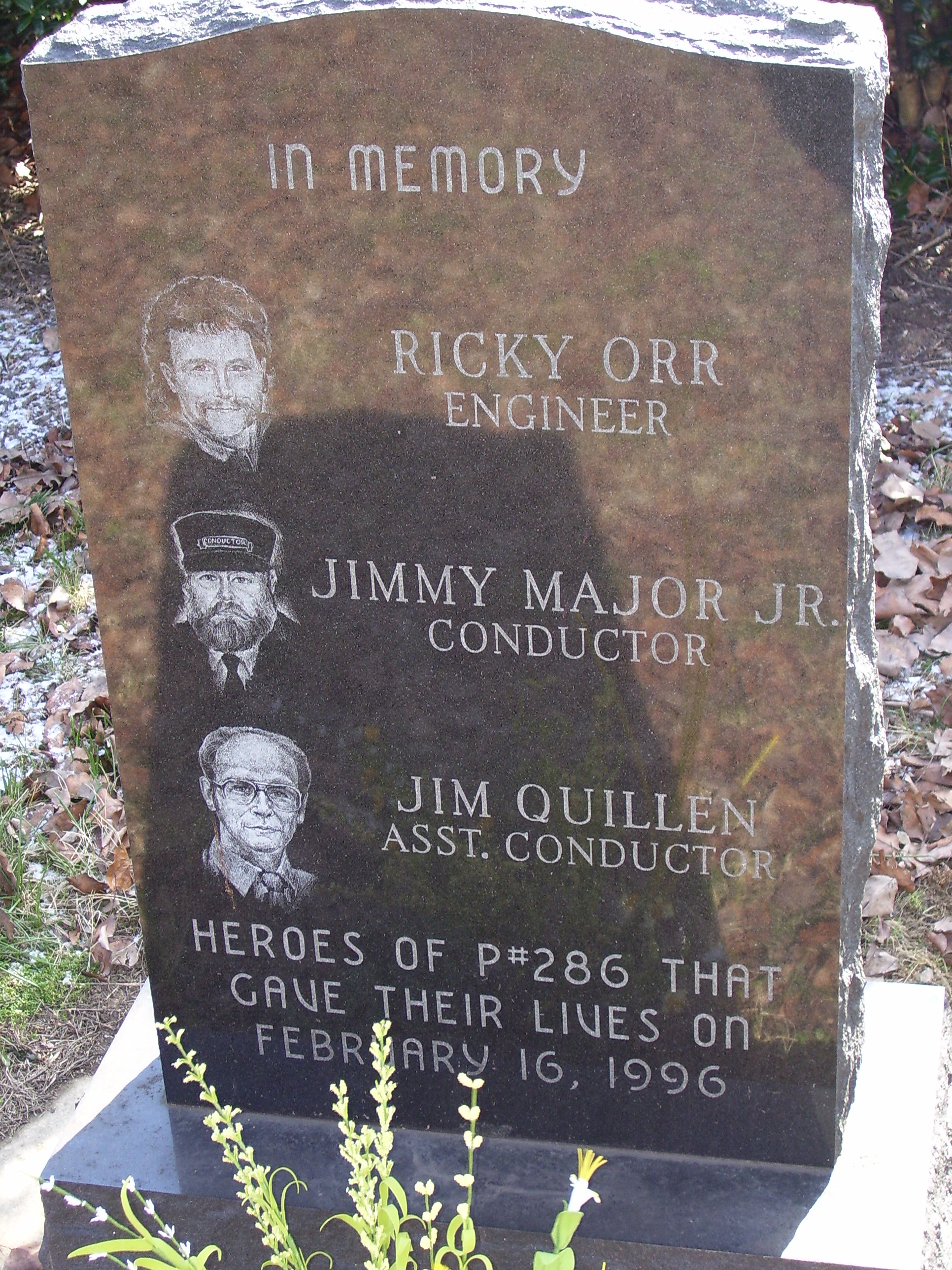 Taken by me User:Wrathchild-K on 3-February-2007, at the Brunswick, Maryland train station. (Opposite side of Image:Brunswick train crash memorial back.jpg)